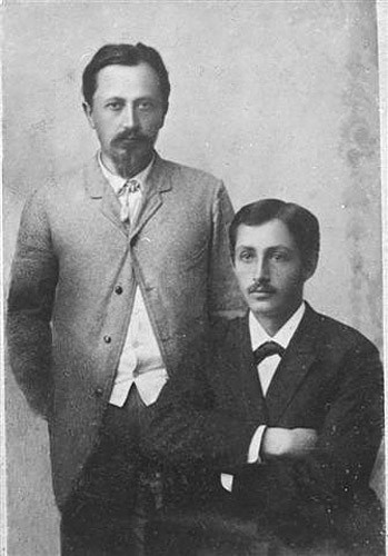 Ivan Bunin and his brother Yuli